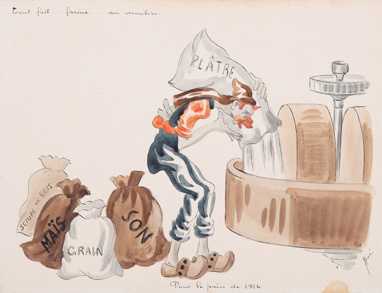 Caricature